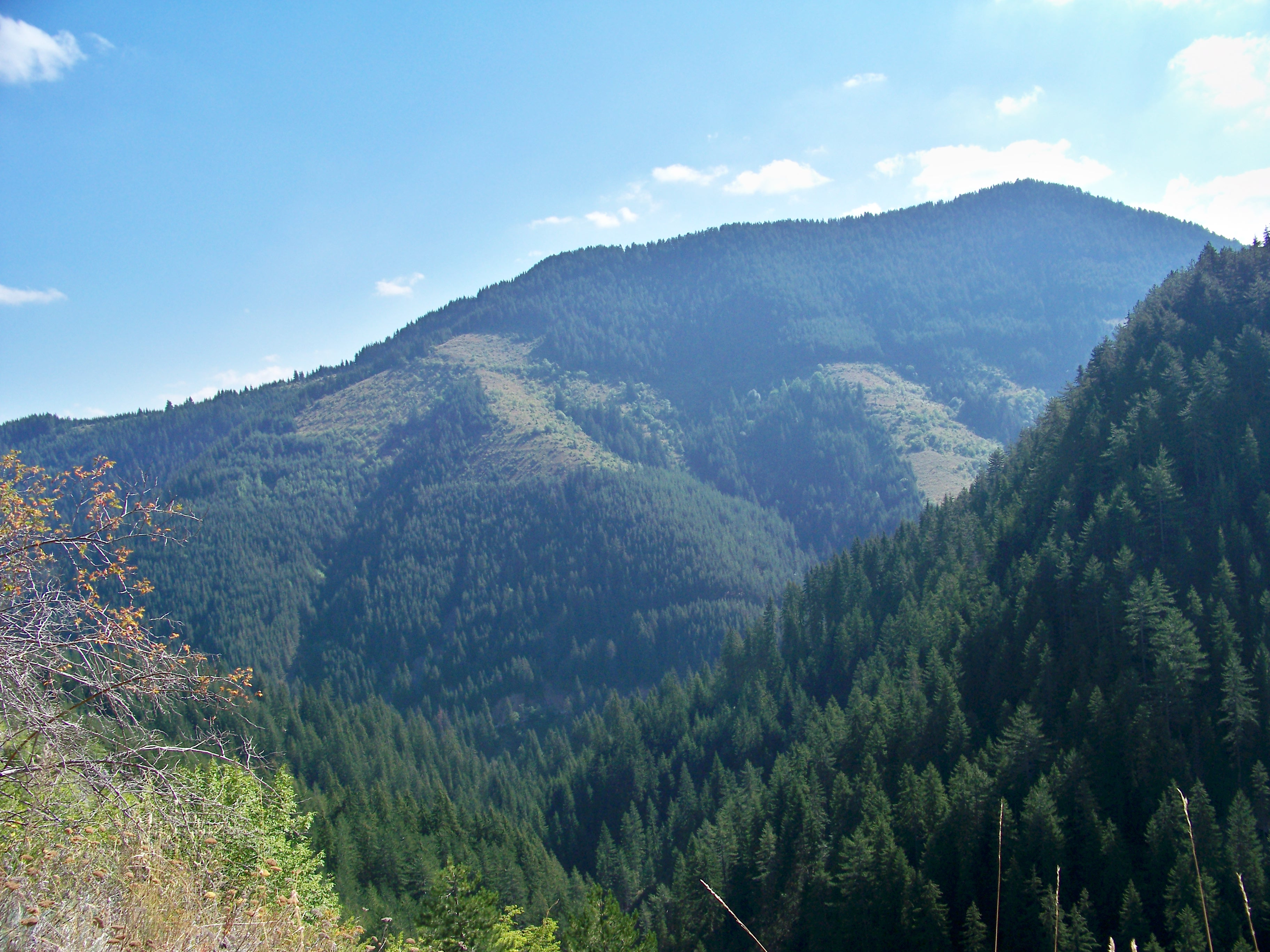 Bulgaria, Rhodope, near the village of Gela